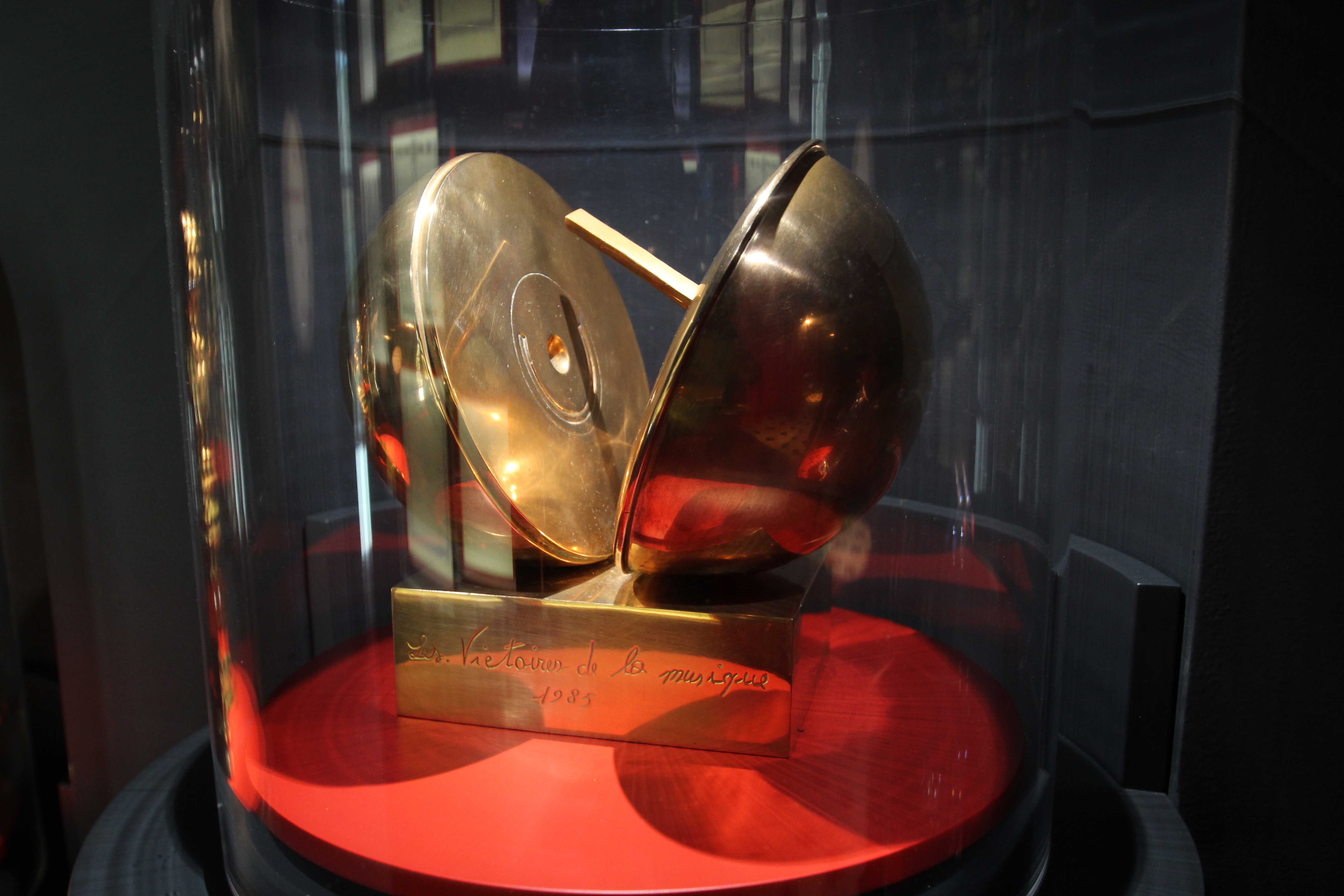 The Raymond Devos Museum is located in Saint-Rémy-lès-Chevreus, Yvelines, France. Object location48° 42′ 22.72″ N, 2° 04′ 33.53″ E